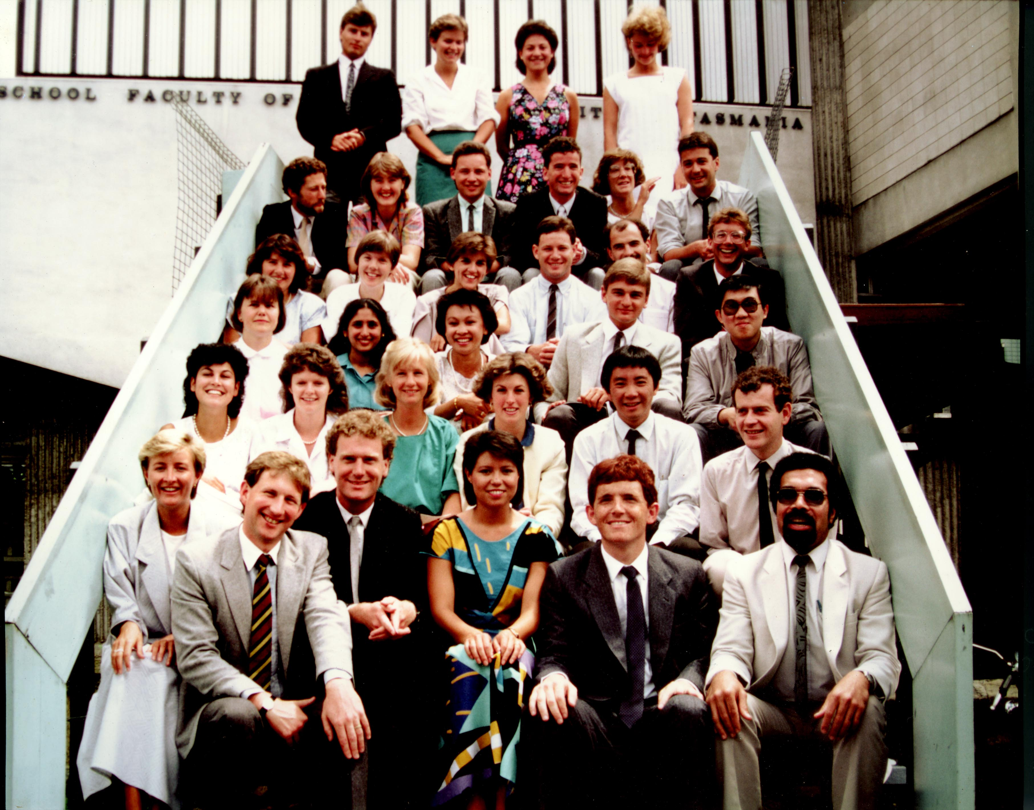 Dale Fisher with his classmates in University of Tasmania